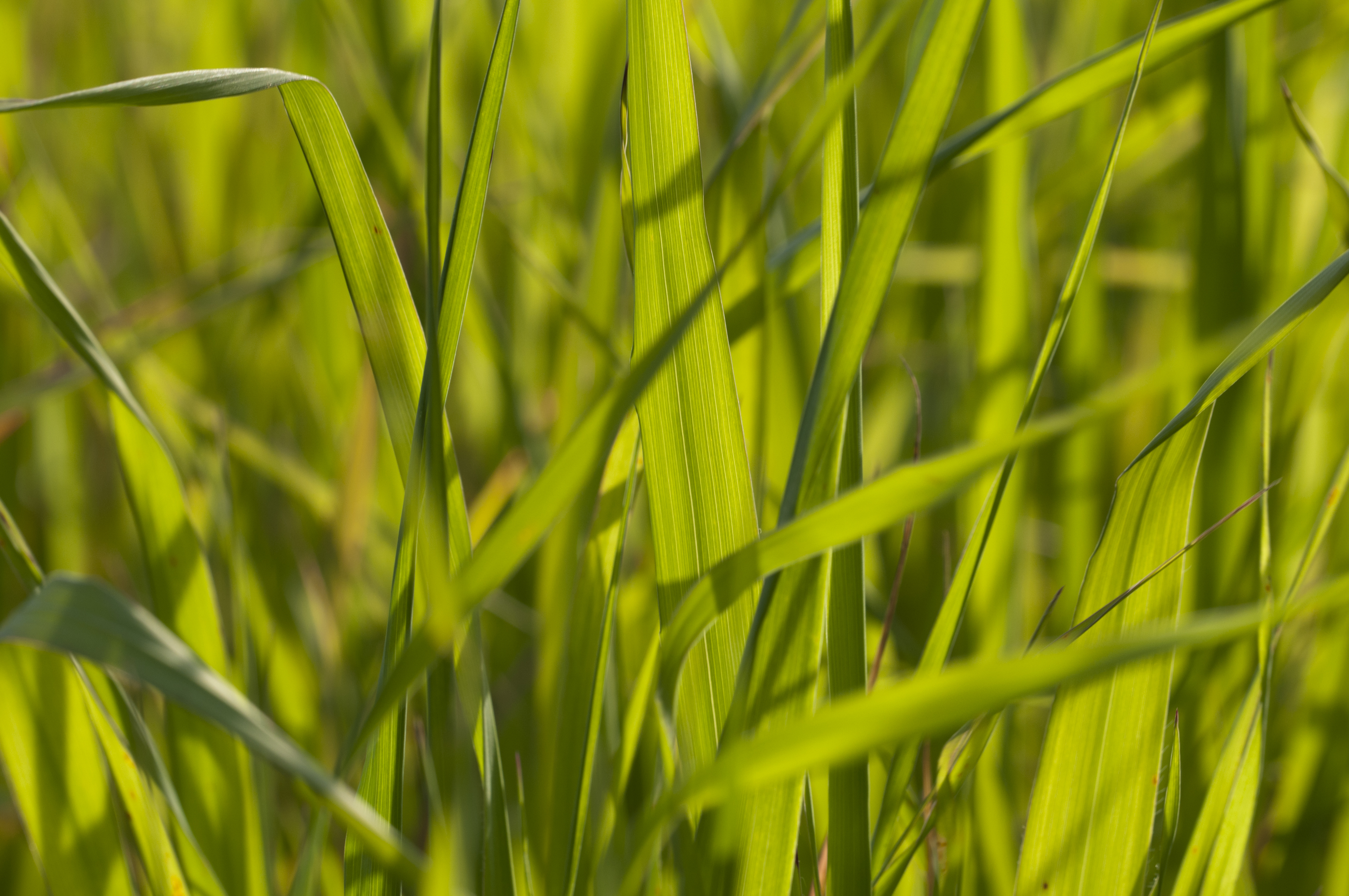 Wild oat (Avena fatua) in foliage period. Balcalı - Adana, Turkey.